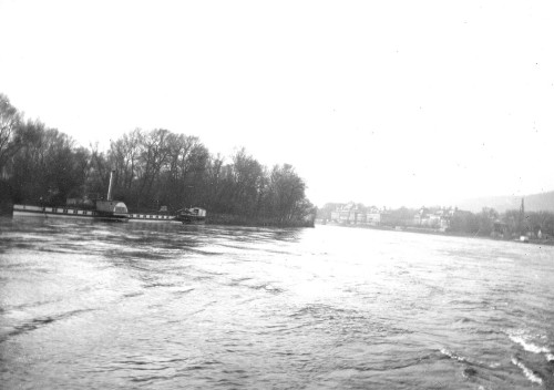 Pillnitz Elbe island with steamboat "Bohemia"